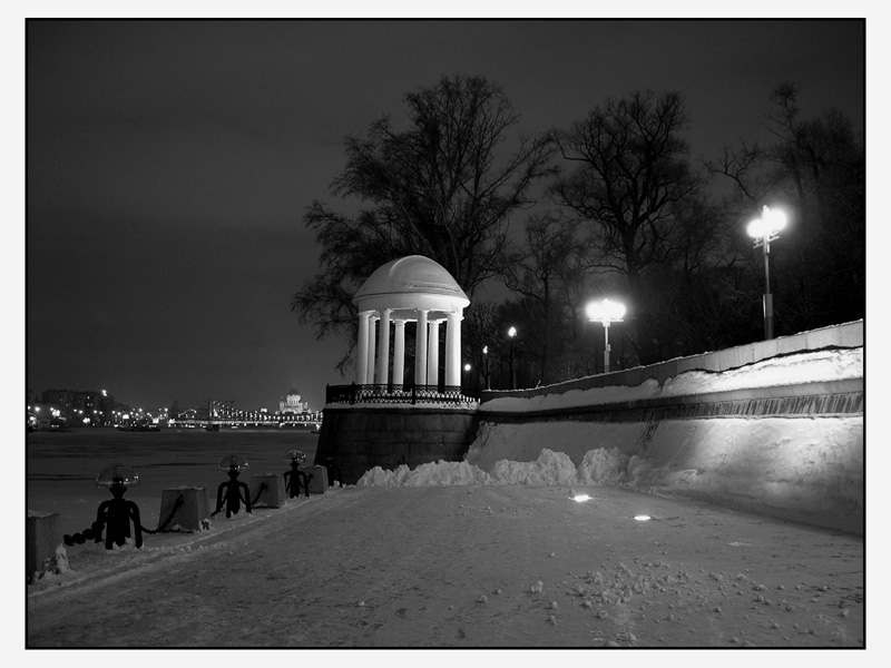 Neskuchnyj Sad in Moscow at night